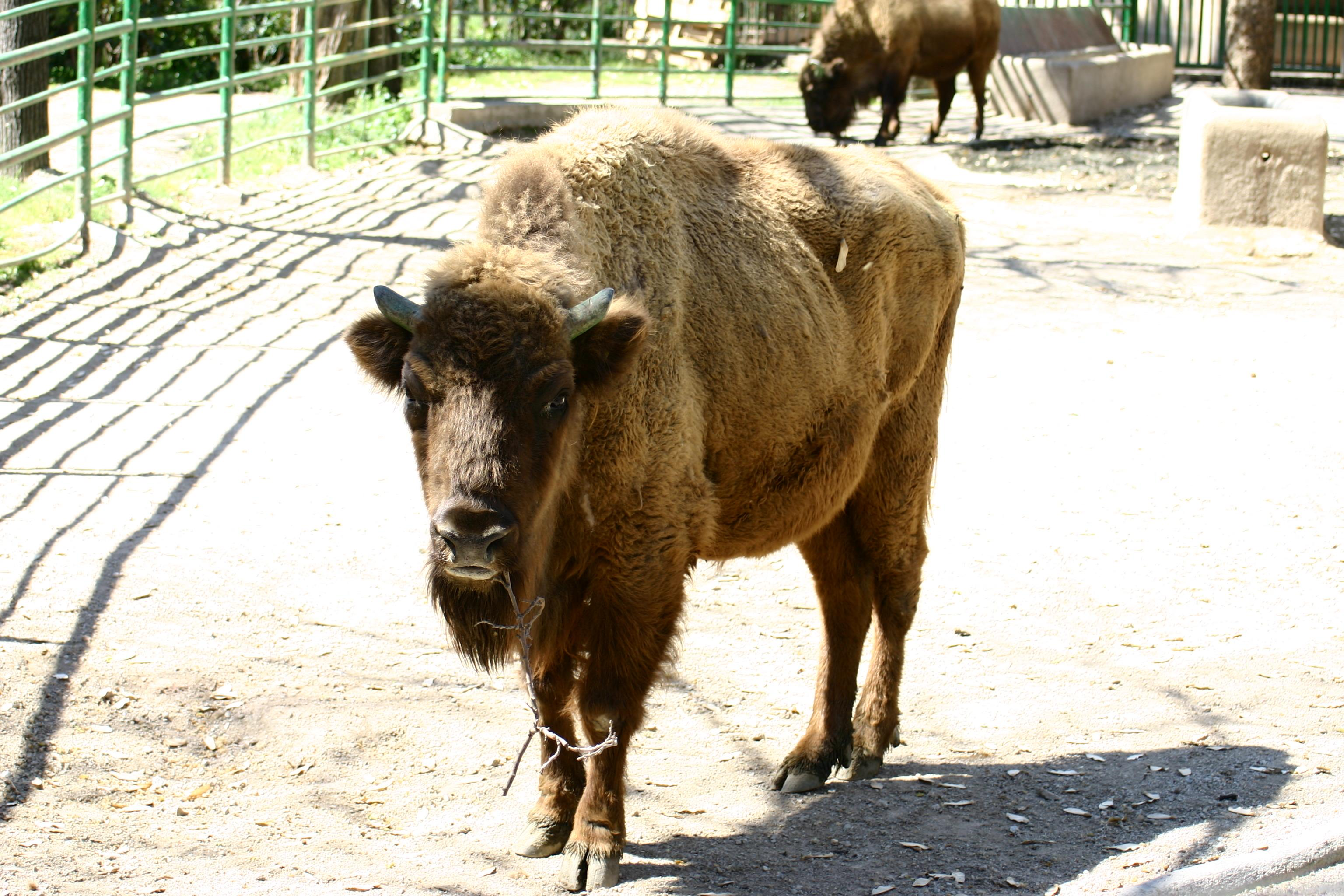 Zoo of Barcelona; O. Artiodactyla; F. Bovidae; Bison Bonasus